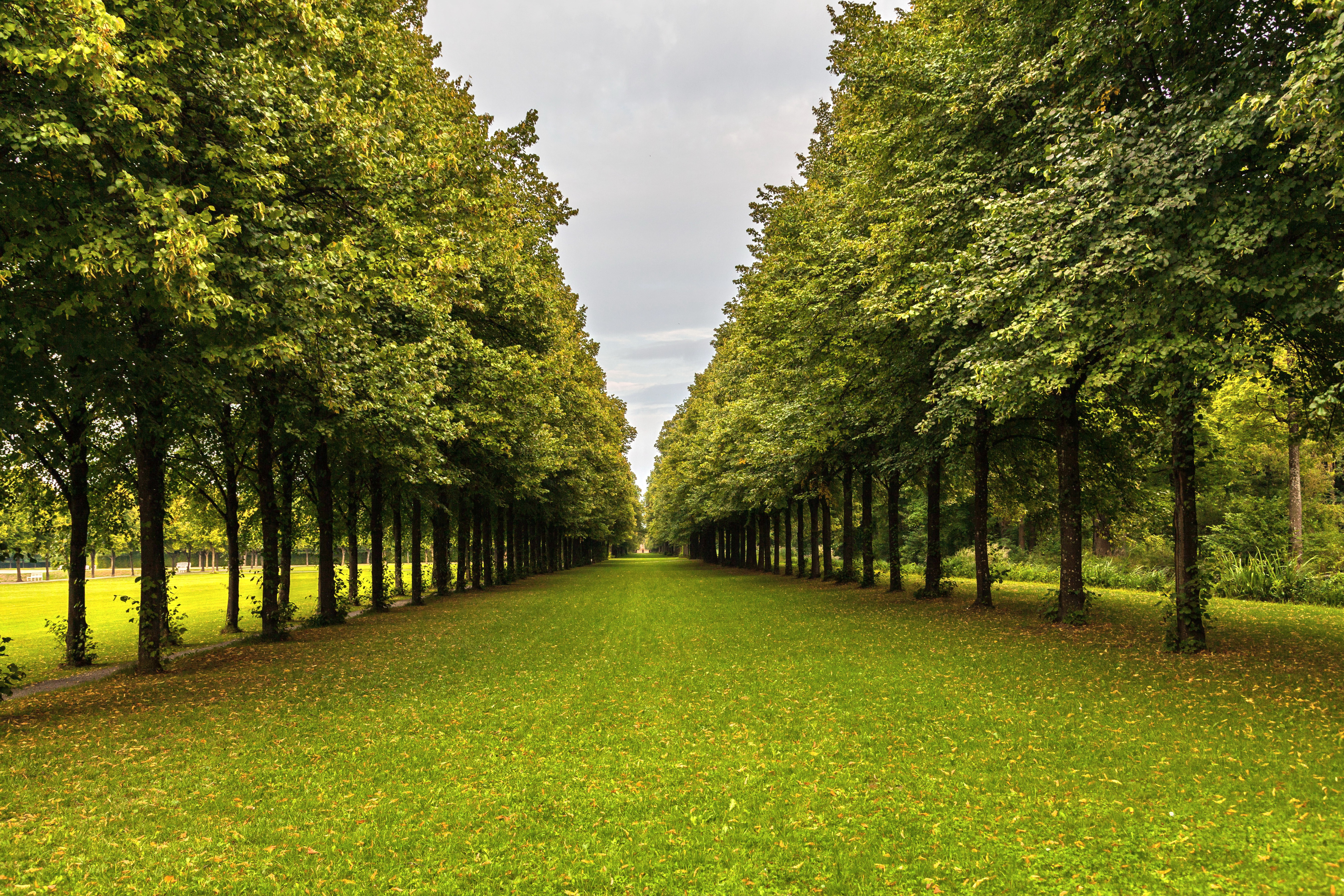 Gardens of Schloss Schleißheim, Oberschleissheim, Germany This is a photograph of an architectural monument.